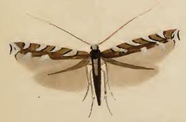 Stainton’s Natural History of the Tineina (1855–1873): Dialectica imperialella